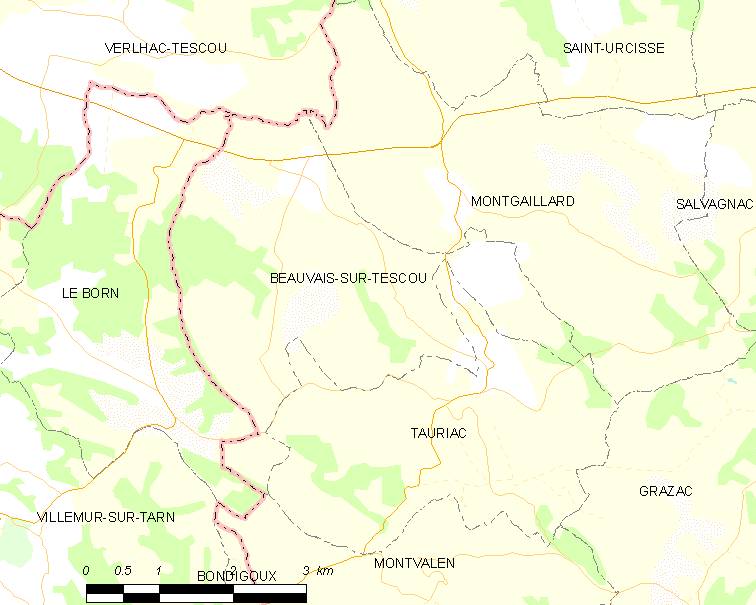 Map of French municipality Beauvais-sur-Tescou